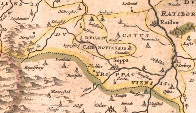 cropped map "Silesia Ducatus" (Duchy of Silesia) from "Theatrum Orbis Terrarum, sive Atlas Novus in quo Tabulæ et Descriptiones Omnium Regionum, Editæ a Guiljel et Ioanne Blaeu" (Theater of the World, or a New Atlas of Maps and Representations of All Regions, Edited by Willem and Joan Blaeu), 1645, to include only the Ducatus Troppaviensis (Duchy of Troppau)